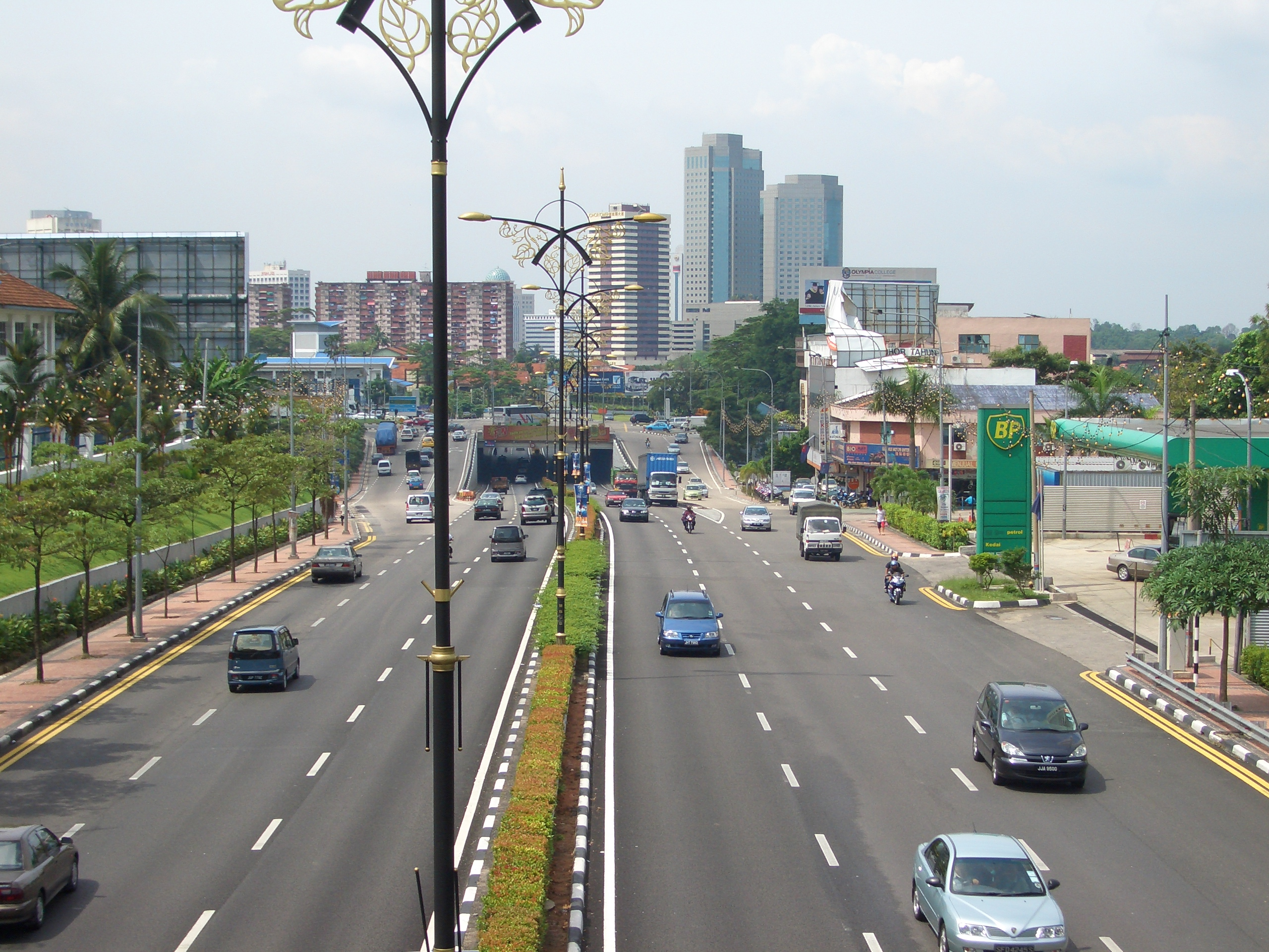 Tebrau Highway, leading on to Johor Bahru city centre. The road over the underground portion of the Tebrau Highway is the Johor Bahru Inner Ring Road.